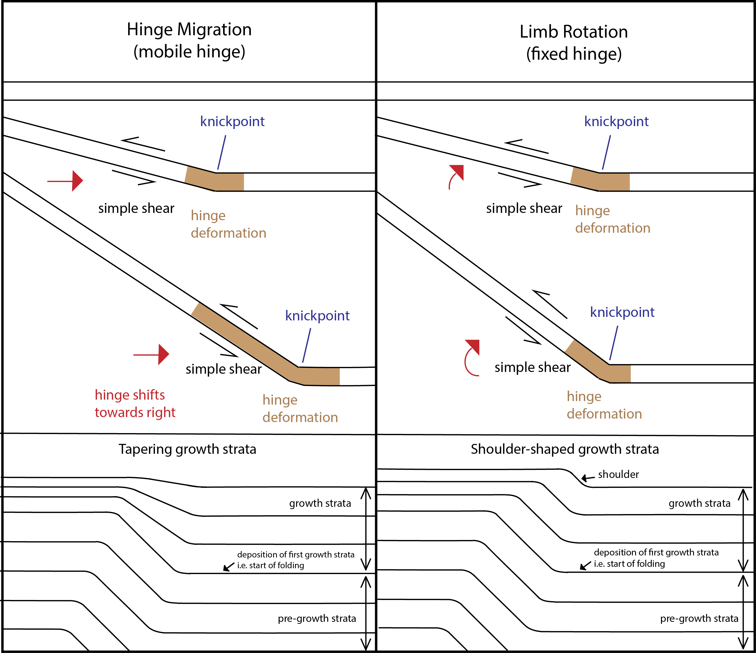 Diagrams showing relationship between fold kinematics and growth strata